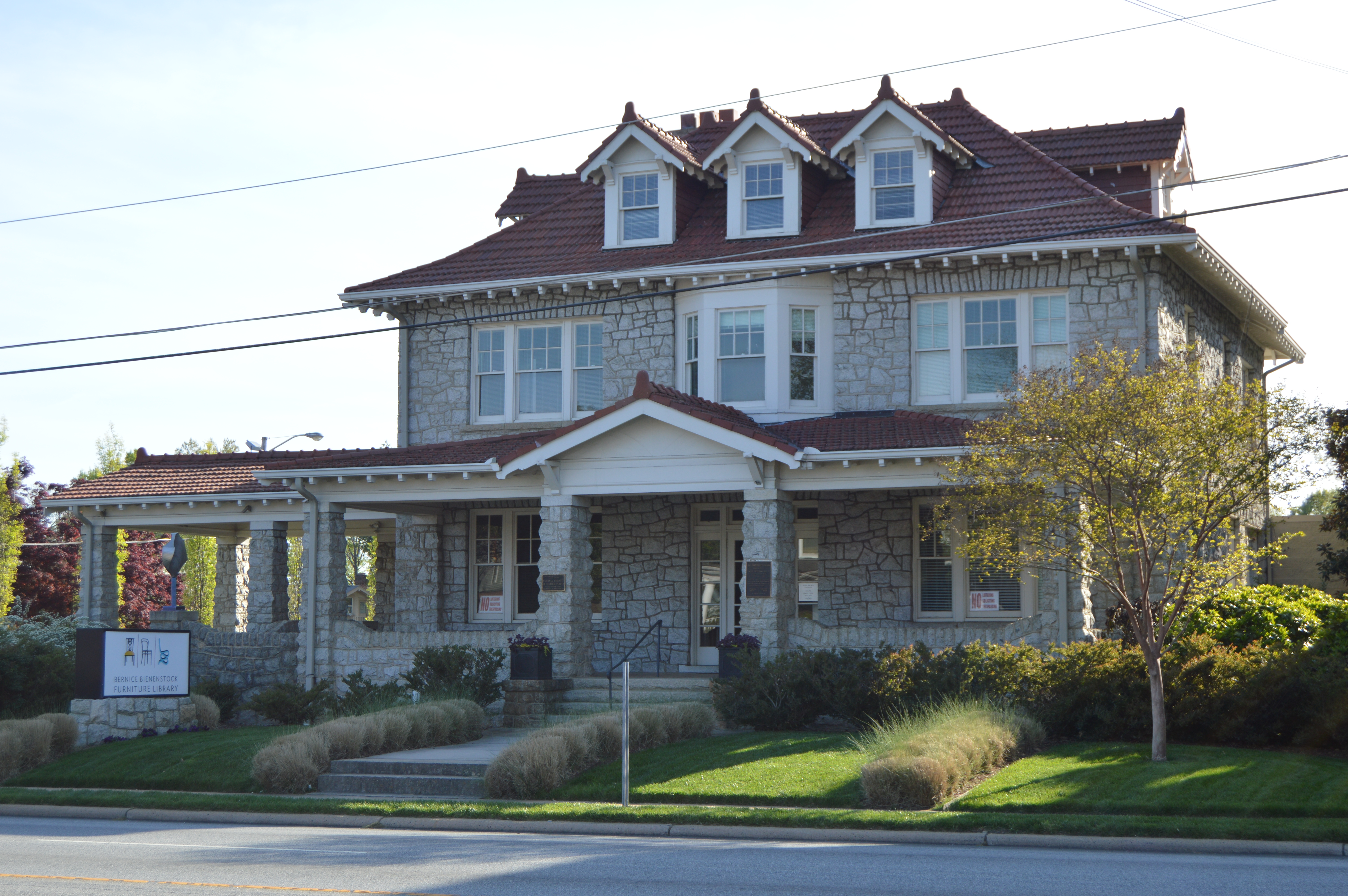 Front of the Dr. C.S. Grayson House, located at 1009 N. Main Street in High Point, North Carolina, United States. Built in 1925, it is listed on the National Register of Historic Places.